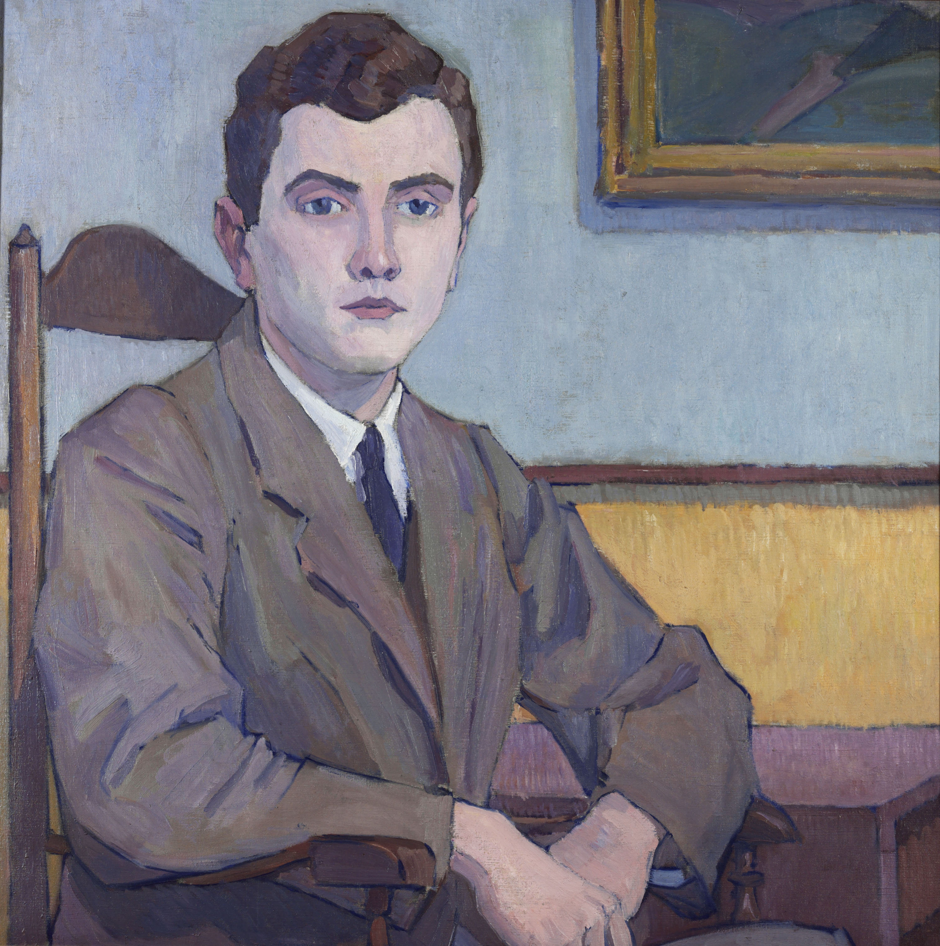 The Artist's Son